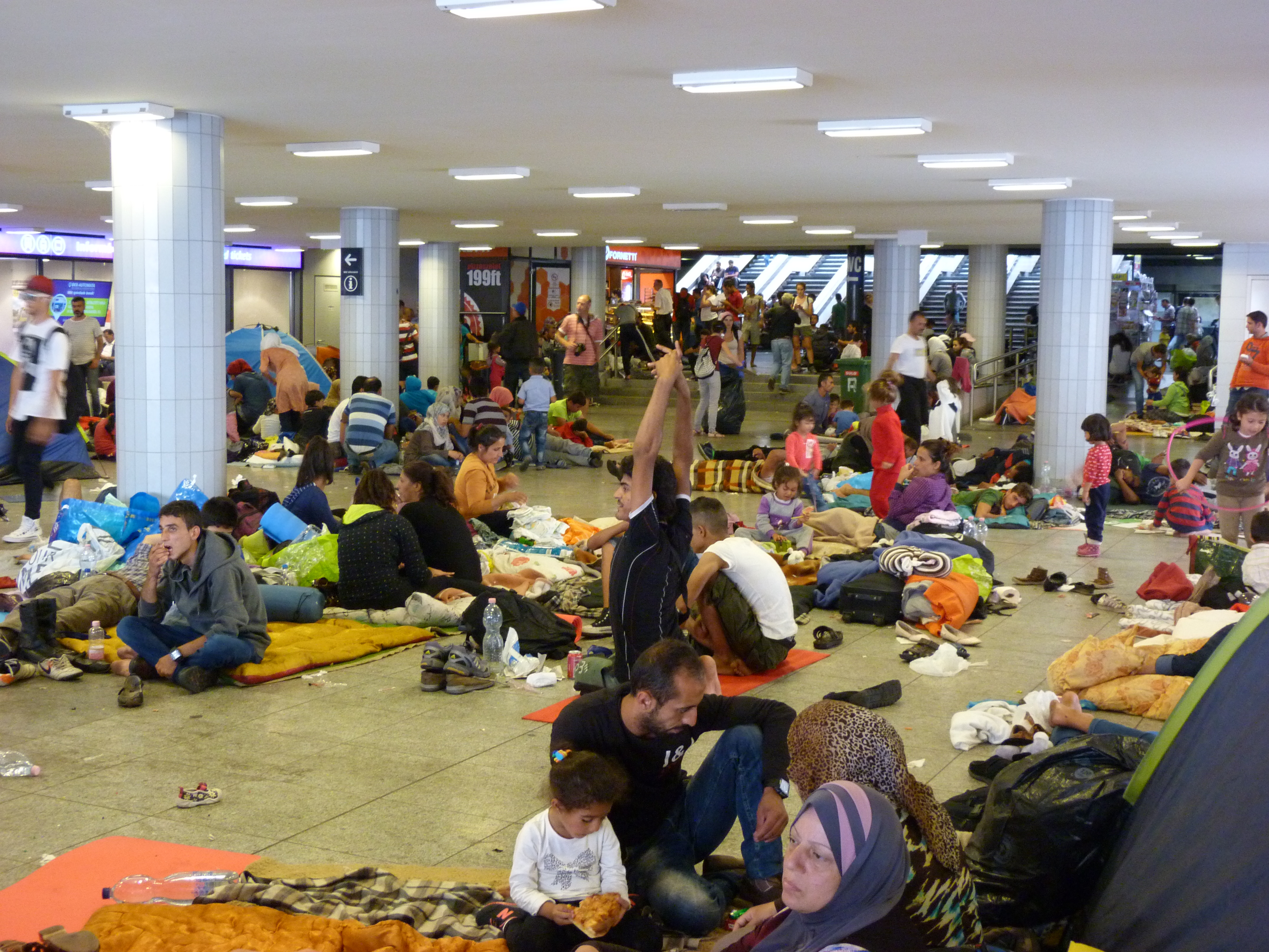 Live on Friday, the 4th of September, 2015. Fornoon. Budapest, at Eastern Railway Station. Entrance of the Metro Line, square in front of the Railway Station, Passage under the Baross square. Migrants at Eastern Railway Station.